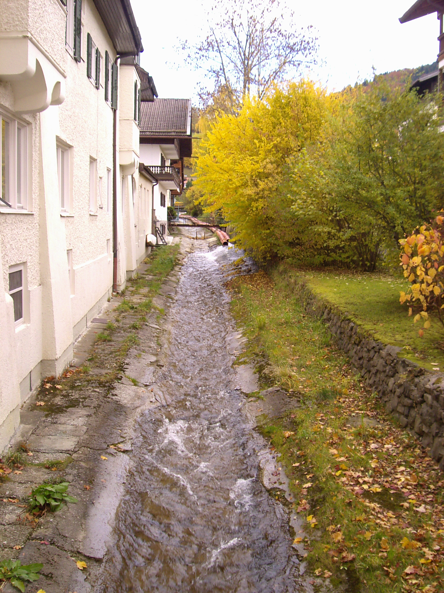 The creek "Alpbach" in the city of Tegernsee